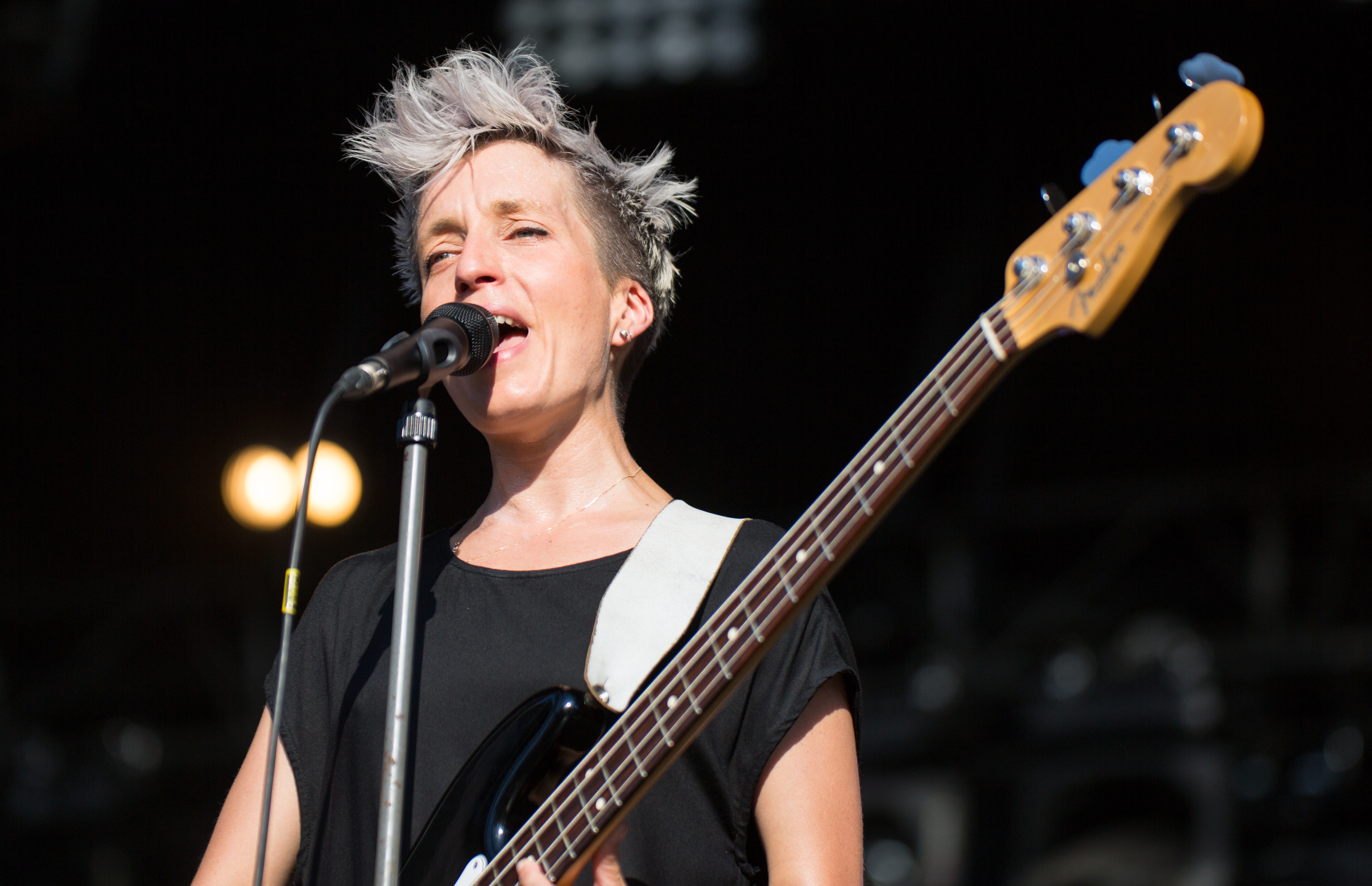 French singer and songwriter Jeanne Added at 2015 Pause Guitare.